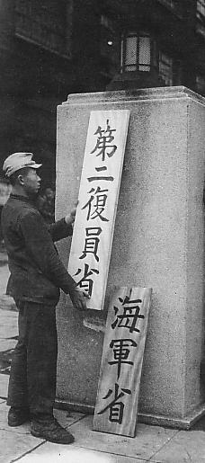 Establishment of Second Ministry for the Demobilized